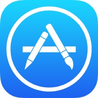 App icon for the Apple App Store